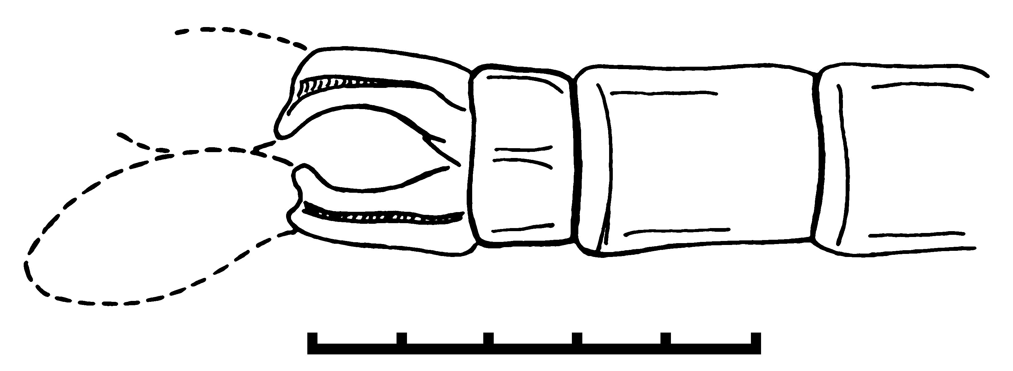 Tarsophlebia eximia (Odonata: Tarsophlebioptera: Tarsophlebiidae), Upper Jurassic, Solnhofen Plattenkalk, male specimen MCZ 6222, cerci, scale 5 mm, drawing by G. Bechly